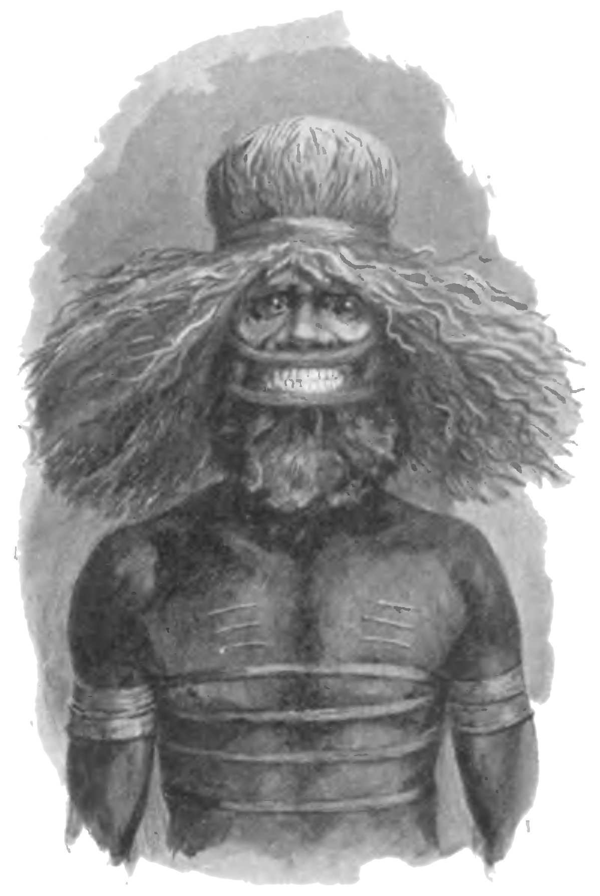 Yuin man with raised scars on chest, in ceremonial dress